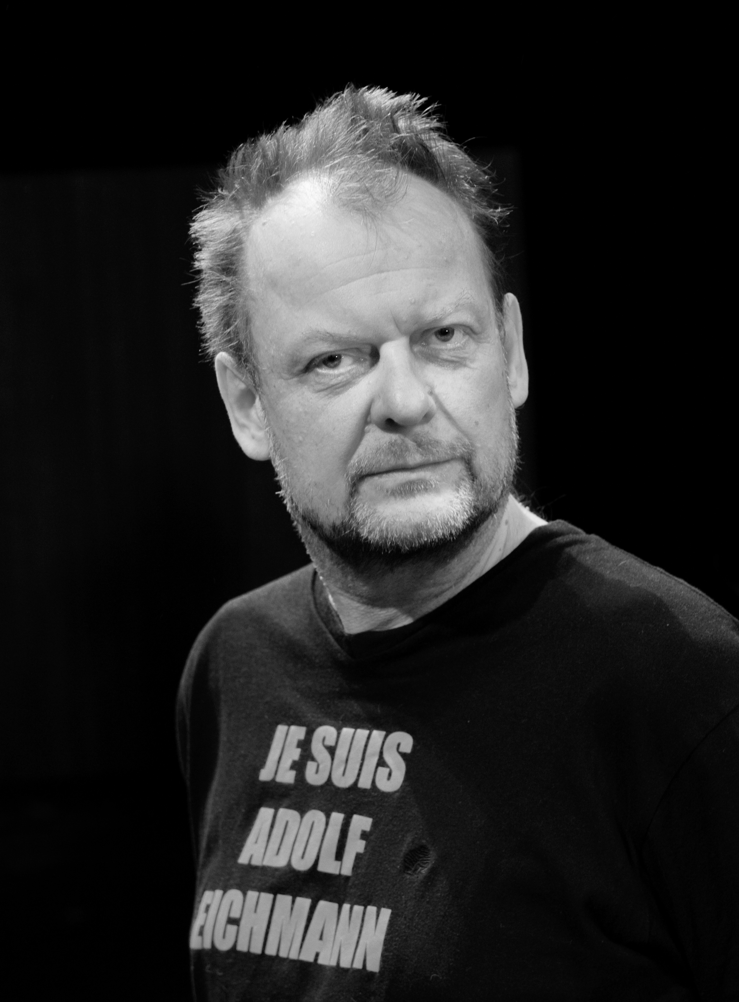 Jari Juutinen. Kuva: Aki Loponen